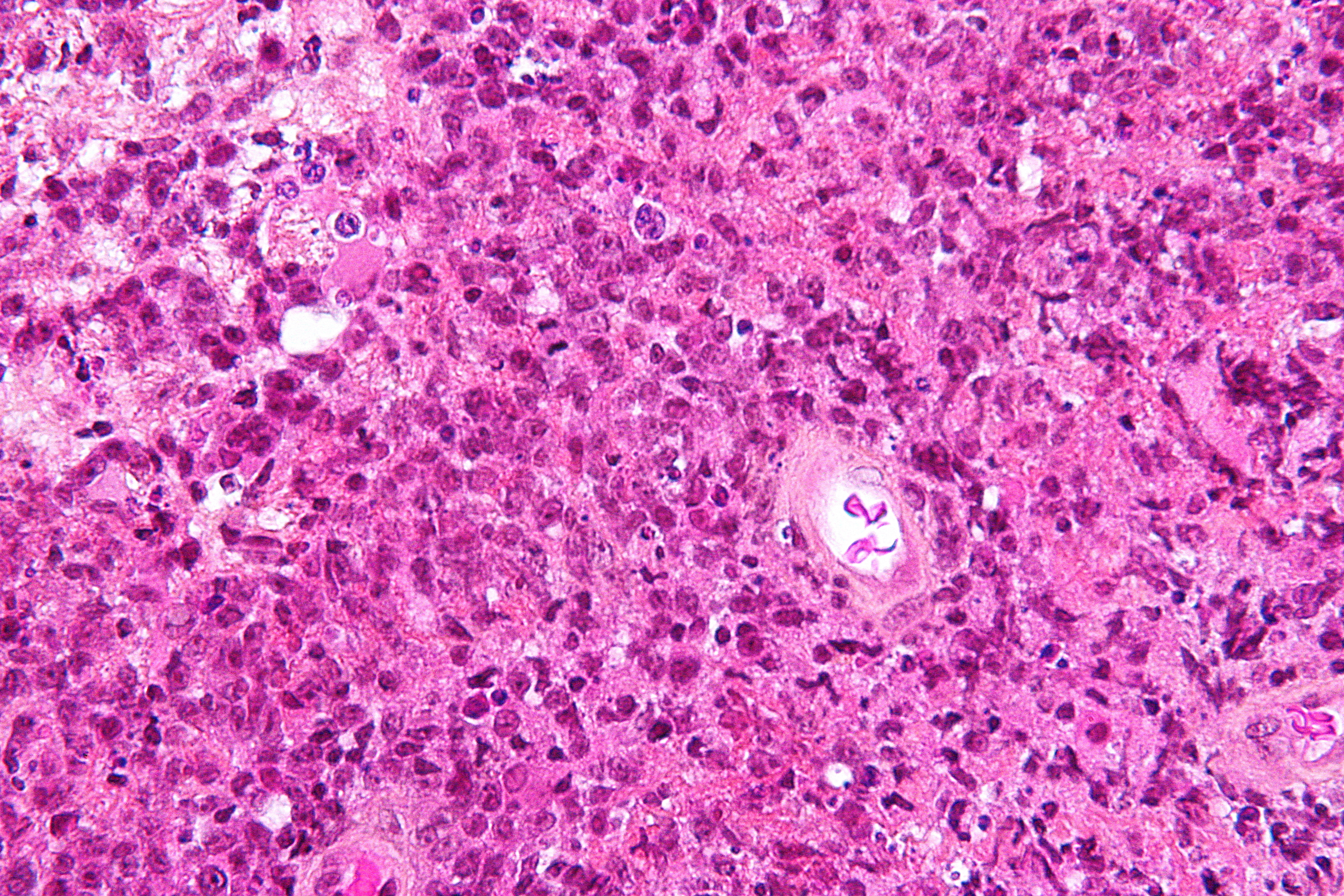 Very high magnification micrograph of a primary central nervous system lymphoma, abbreviated PCNSL, and also known as primary CNS lymphoma. HPS stain. PCNSL is a large cell lymphoma; it consists of neoplastic lymphoid cells with pale ("open") chromatin, prominent nucleoli and scant basophilic cytoplasm. The cells are approximately ~3-4x the size of a "resting" lymphocyte. Mitoses are typically not hard to find. It has a characteristic perivascular distribution and is classically periventricular. Related images Low mag. Intermed. mag. High mag. Very high mag.